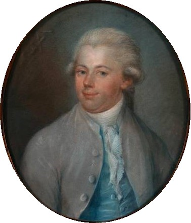 Portrait of Jean-Baptiste van Dievoet, born in Brussels 24 January 1747, baptised in Saint-Nicholas, died in Brussels on 30 December 1821. He married in Brussels in Saint Catherine on 12 Sept 1774 Anne-Marie Françoise LAMBRECHTS, daughter of Jean-Louis Lambrechts and Marie François Bibliographie : « Généalogie de la famille van Dievoet originaire de Bruxelles, dite Vandive à Paris », dans Le Parchemin, (Bulletin bimestriel édité par l’Office Généalogique et Héraldique de Belgique, sous le Haut Patronage de S. M. la reine Marie José), n° 245, Bruxelles, 1986, page 274 à 293. (Voir page 287).